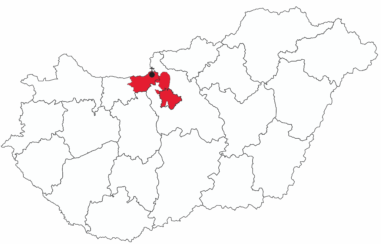 The map of the Archdiocese of Esztergom-Budapest. This is the diocese of the primate and cardinal of Hungary.